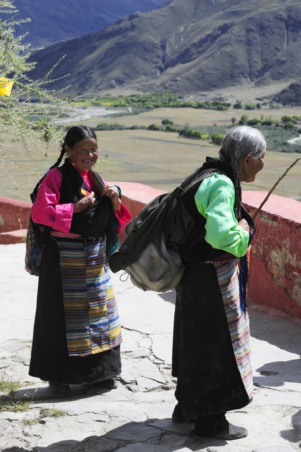 Women at Ombu Lhakang, Yarlung Valley, Nedong County, Shannan Prefecture, Tibet